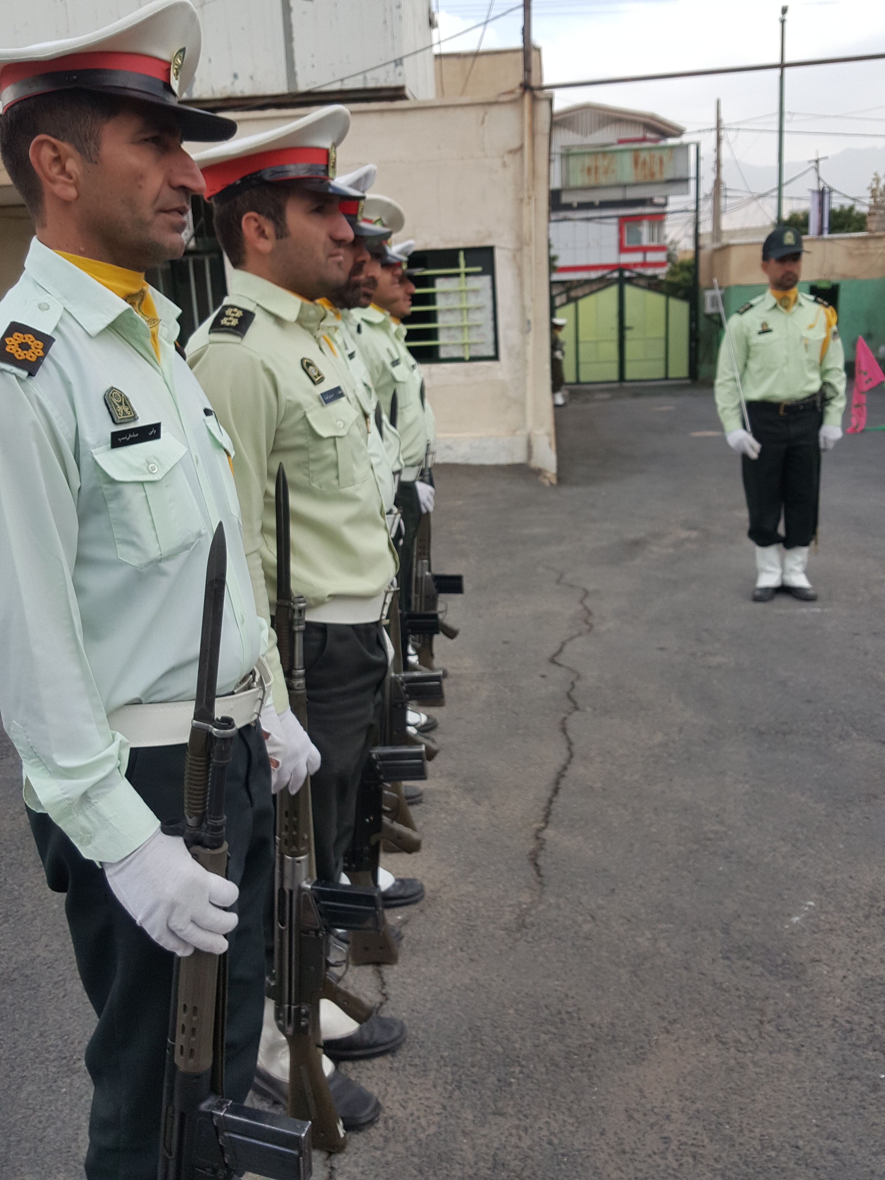 در هفته نیروی اتظامی